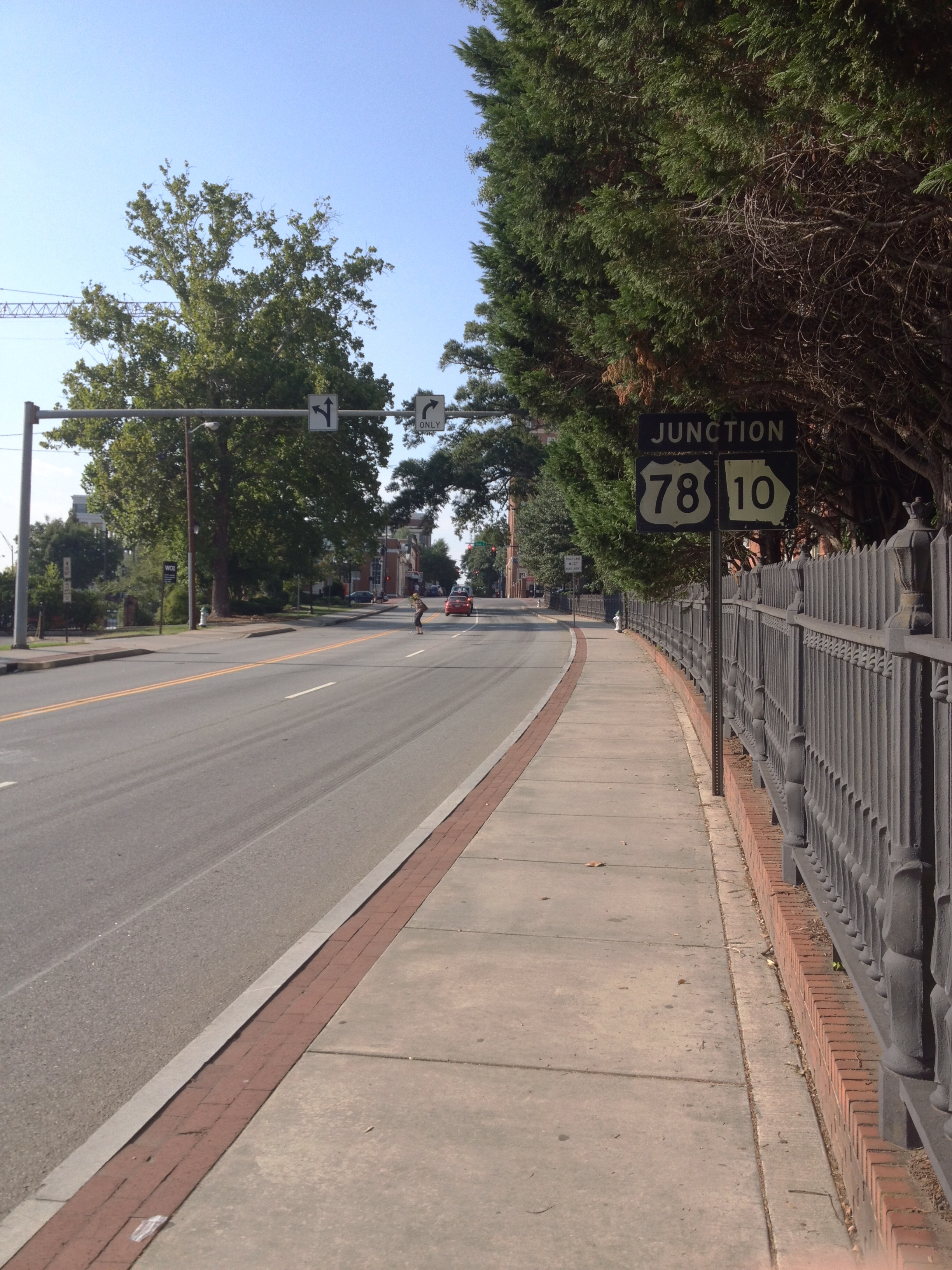 sign misplacement